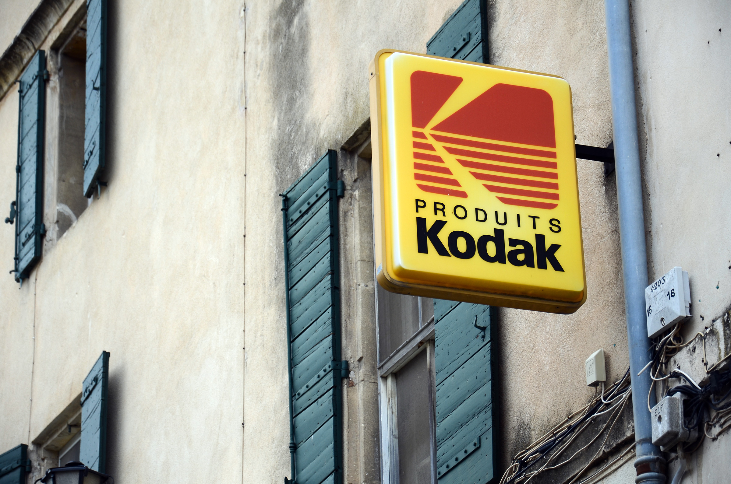 Kodak advertising light in Arles, France.